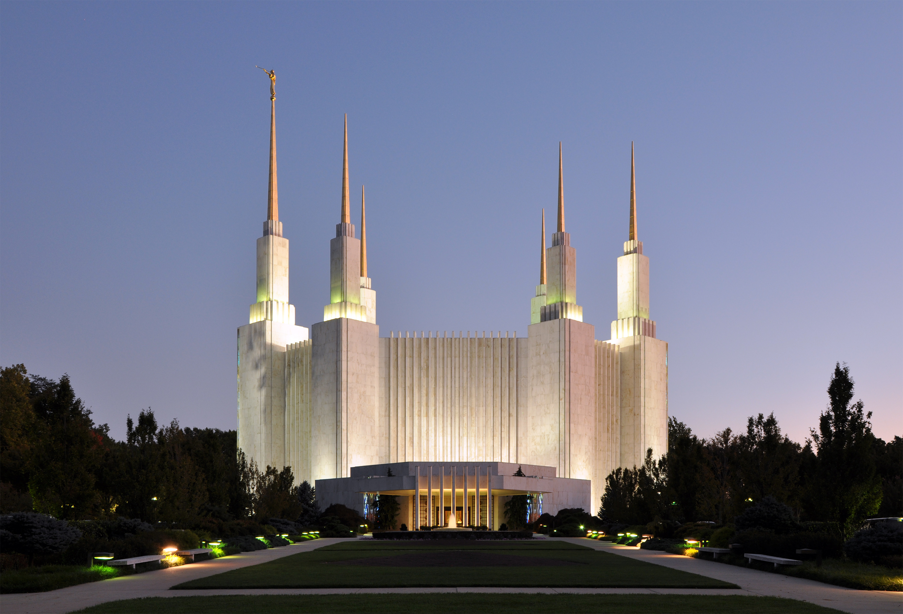 Washington D.C. Temple at dusk in Kensington, Maryland, USA.